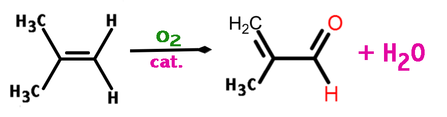 Methacrolein from isobutylene